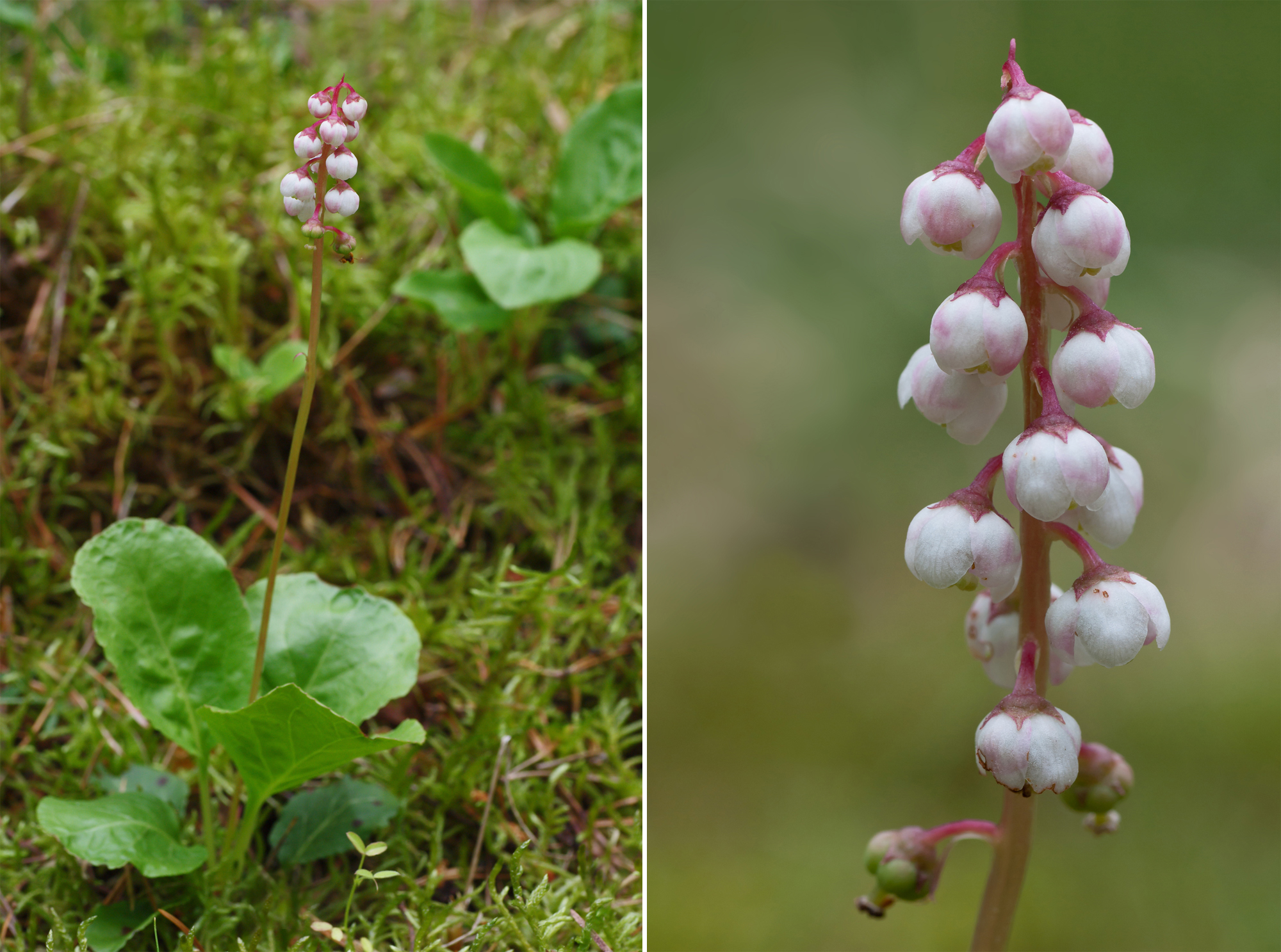 Habitus and inflorescence of Pyrola minor.